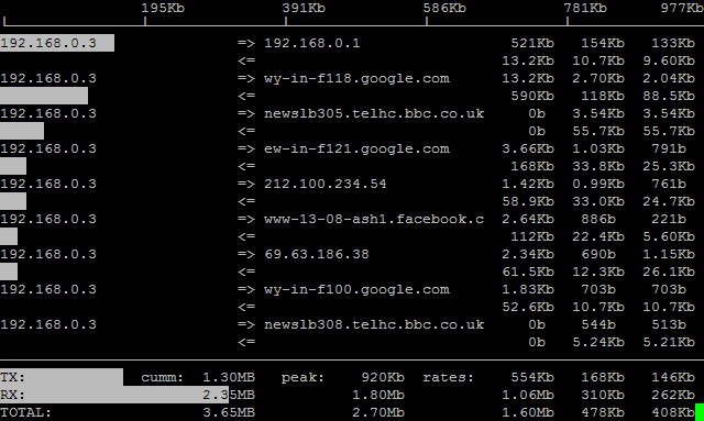 Screenshot of iftop running